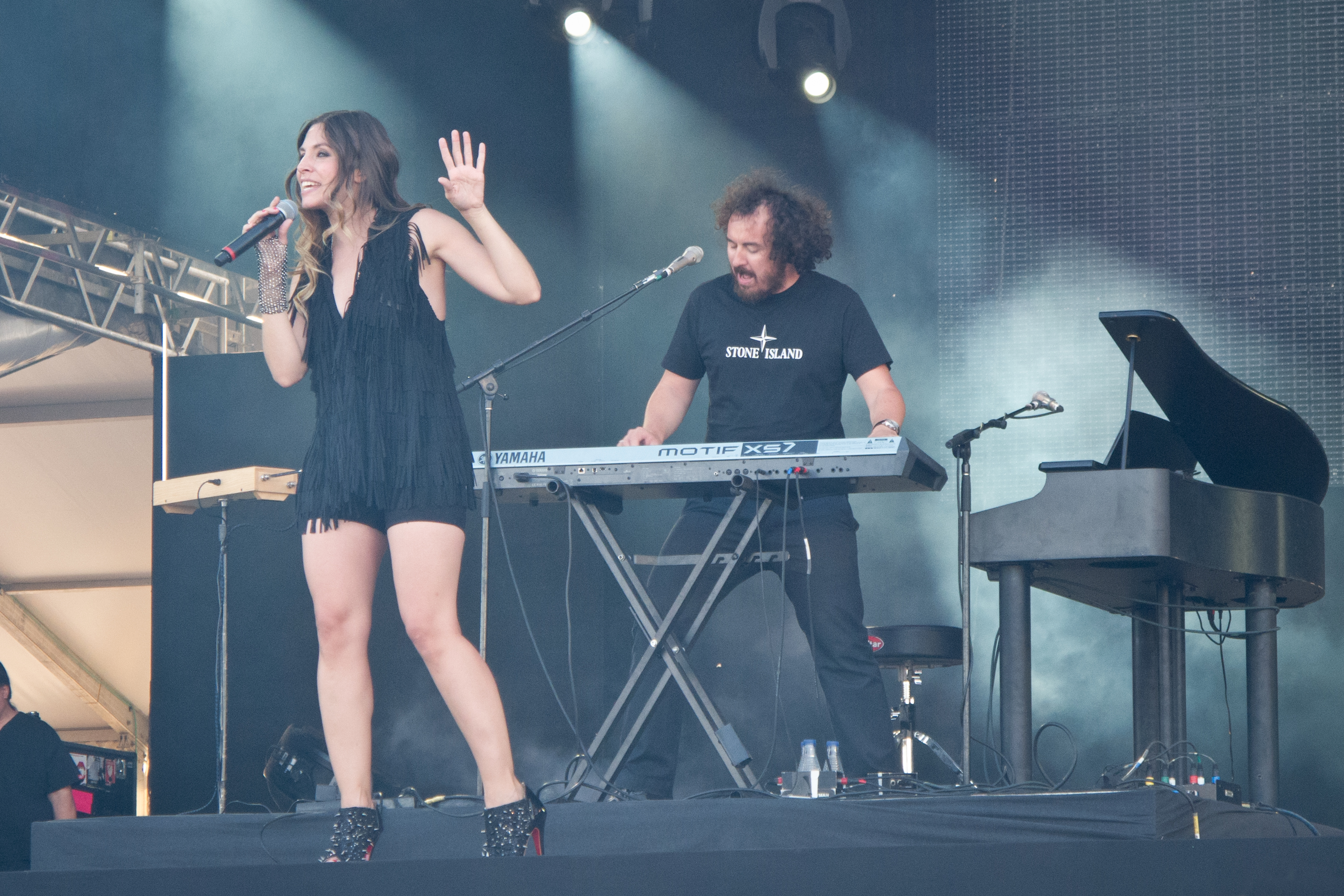 La oreja de Van Gogh in Rock in Rio Madrid 2012.